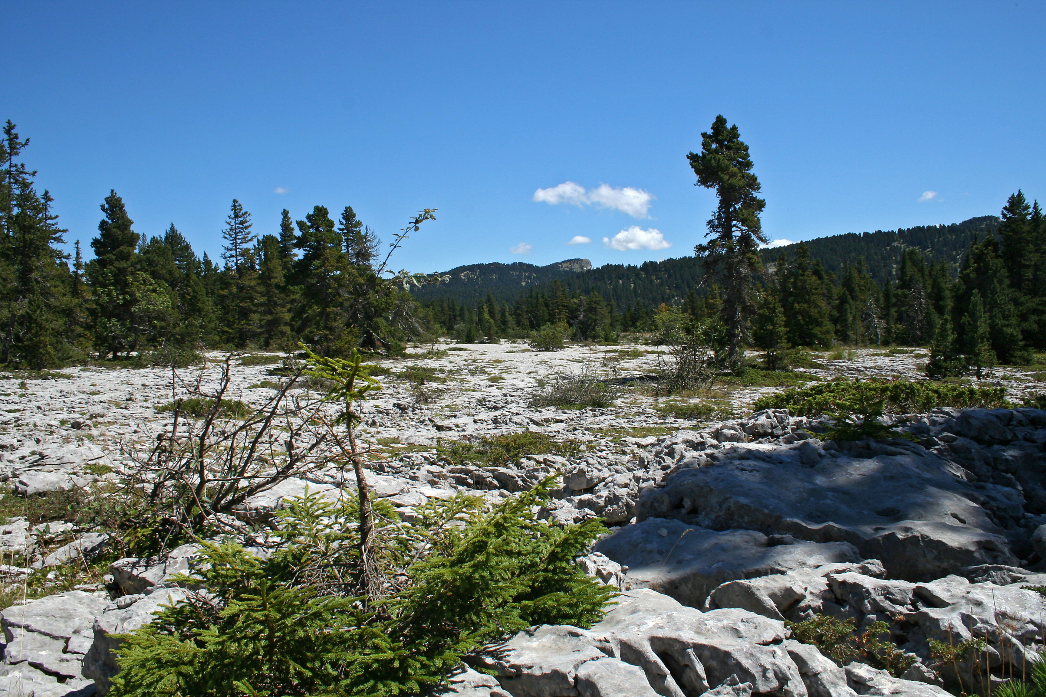 limestone pavements in La plaine du Roi (The king's plain), on the high plateau reserve of Vercors_Plateau. These areas of bare rock are typical high altitude features of Vercors and a typical geomorphology in many karstic areas of the world.